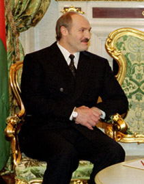 President of Belarus Alexander Lukashenko